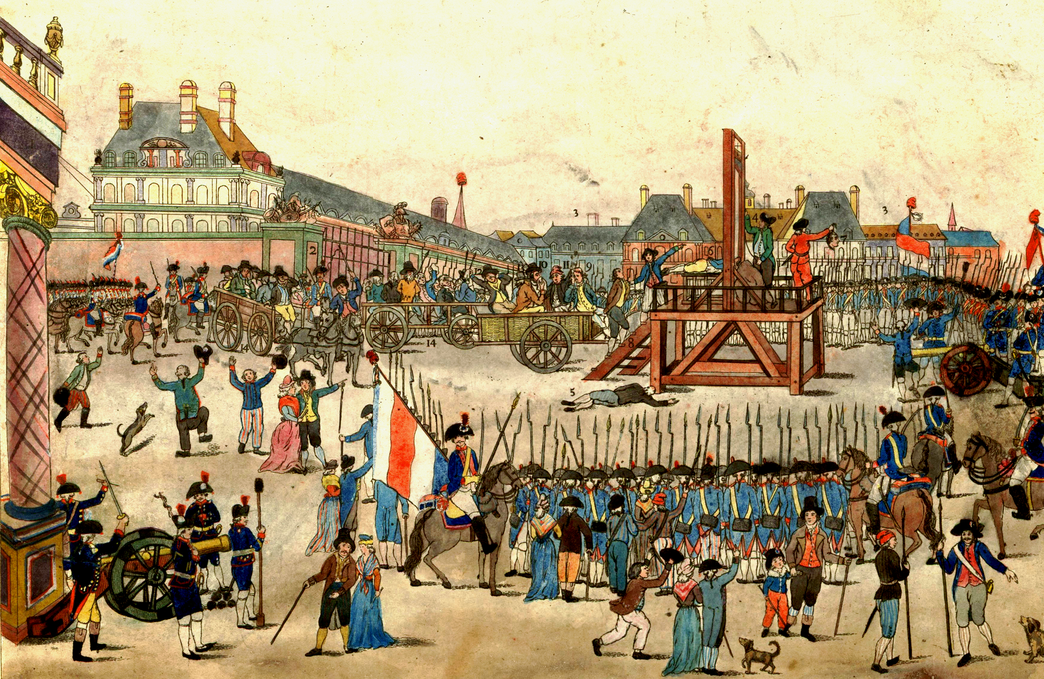 The execution of Robespierre and his supporters on 28 July 1794. Note: the beheaded man (6) is not Robespierre, but Couthon: Maximilien Robespierre (10) is shown sitting on the cart, dressed in brown, wearing a hat, and holding a handkerchief to his mouth. His younger brother Augustin (8) is being led up the steps to the scaffold.